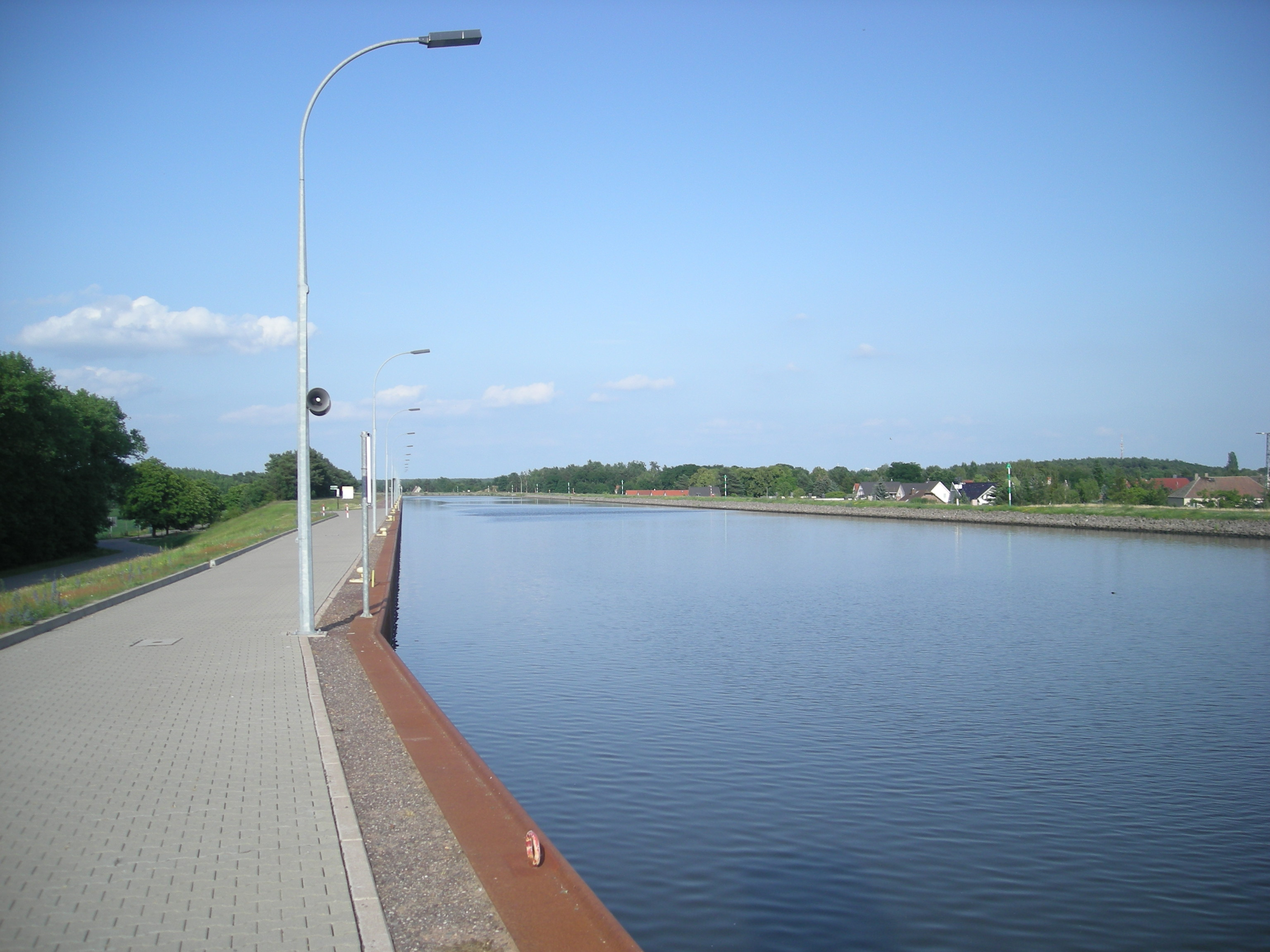 The Magdeburg Water Bridge near Magdeburg, Sachsen-Anhalt (Germany).